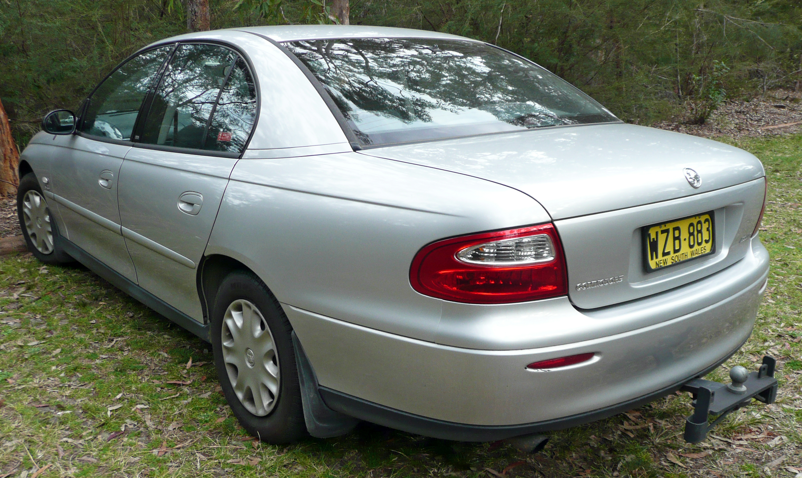 2000–2001 Holden VX Commodore Acclaim sedan. Photographed in Audley, New South Wales, Australia.